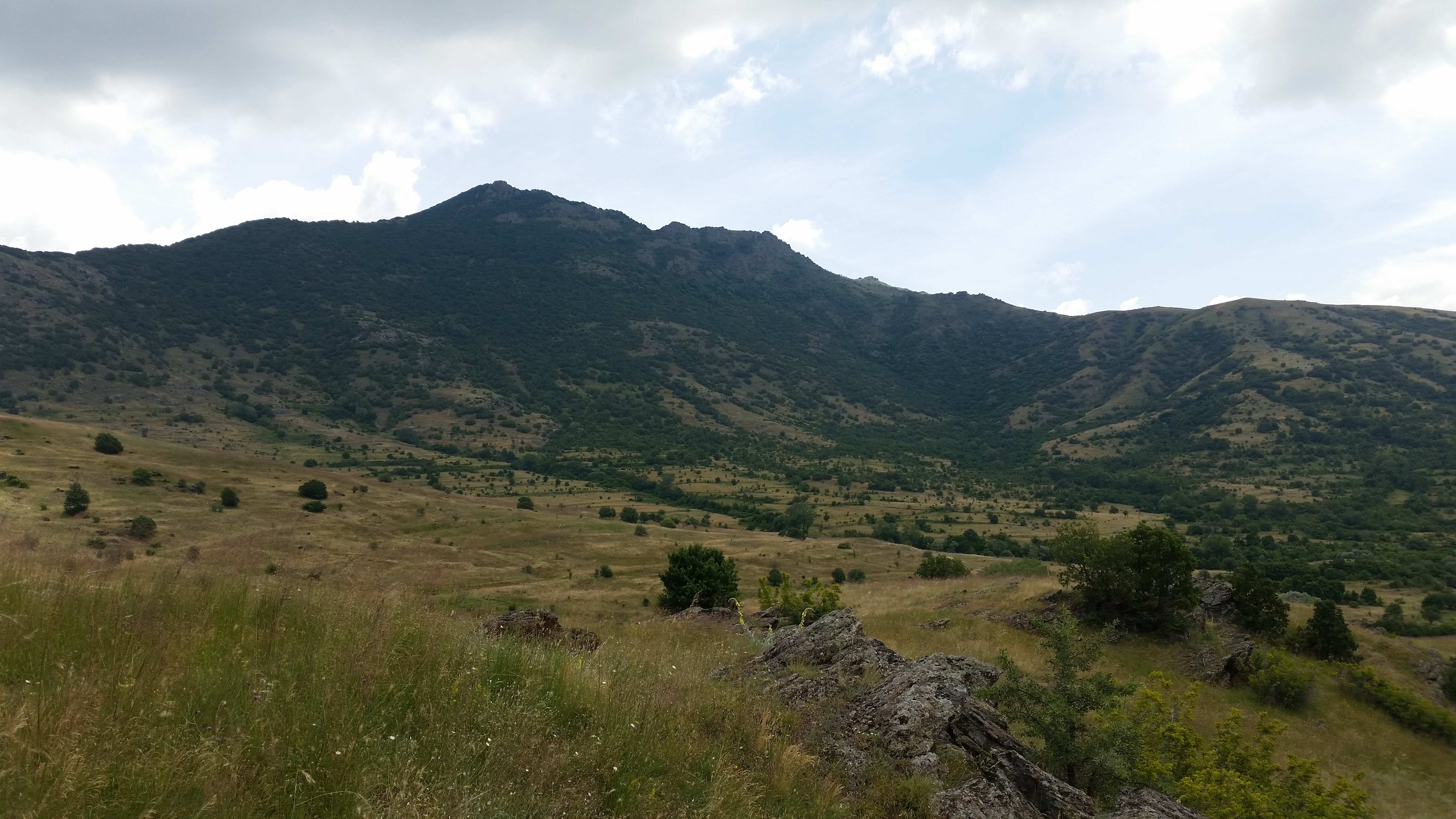 Visoka peak on Selečka Mountain viewed from the western foothills